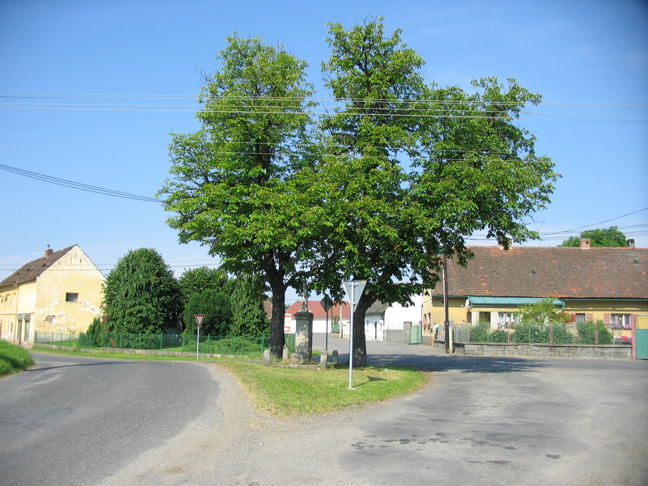 Crossroads in the centre of Nezamyslice, Klatovy District, Czech Republic